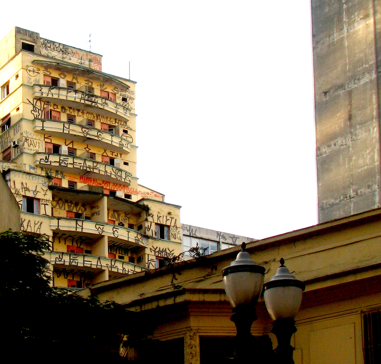 house with typical pixação graffiti, são paulo, brazil